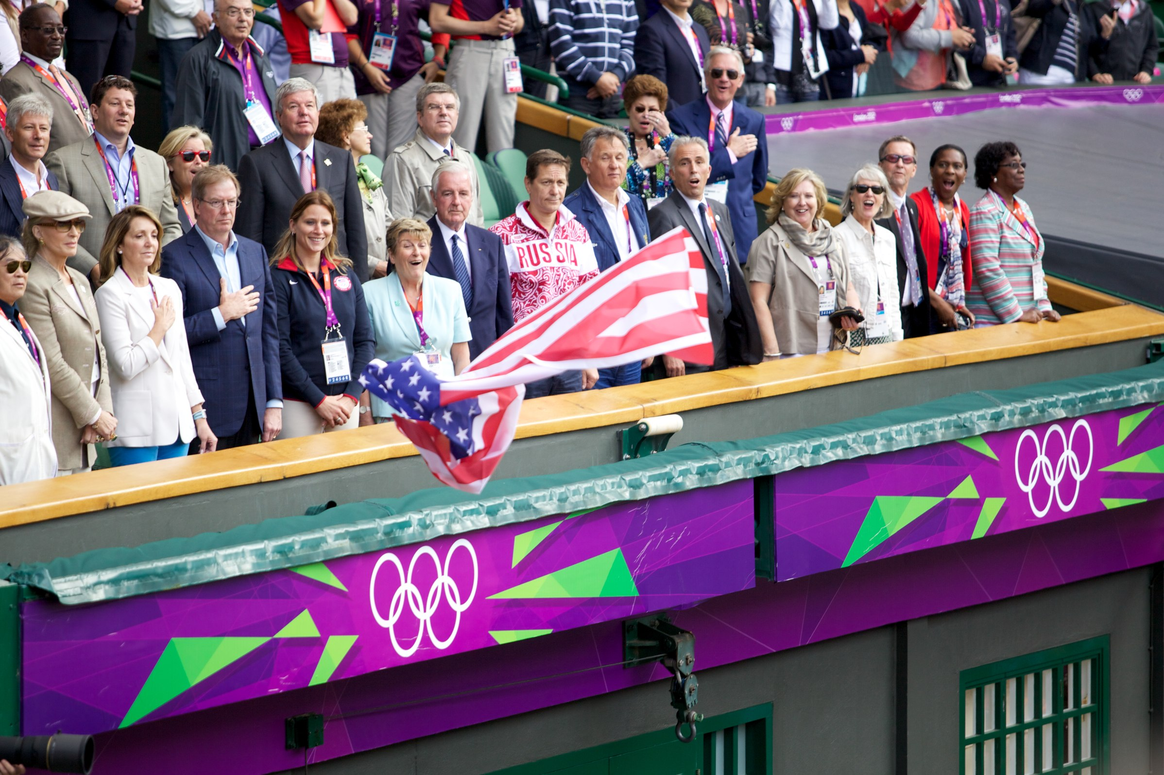 During the medal ceremony the US flag fell off its mounting. I managed to catch this shot of the royal box reaction to the event.